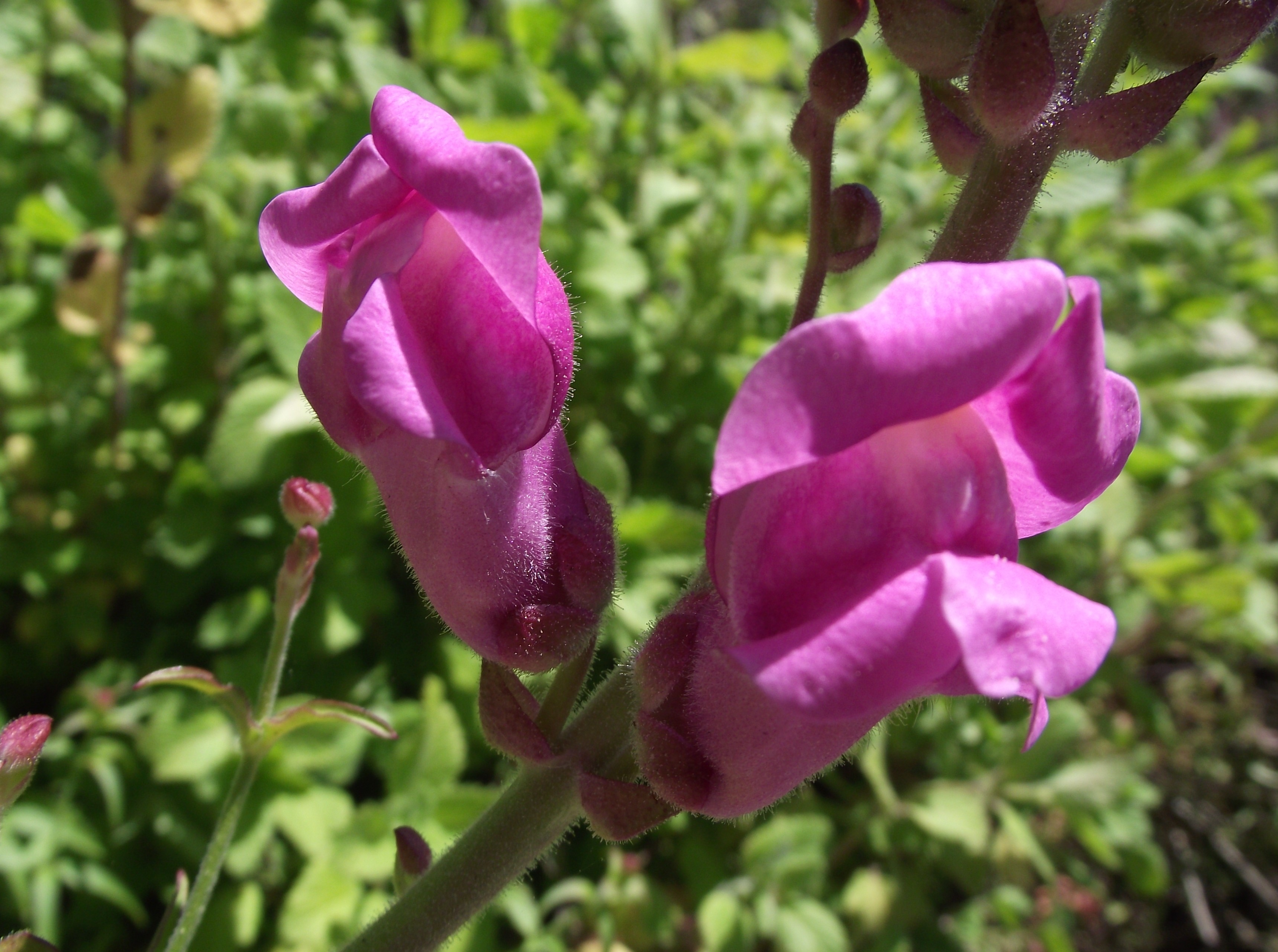 Antirrhinum australe in the UC Botanical Garden, Berkeley, California, USA. Identified by sign.